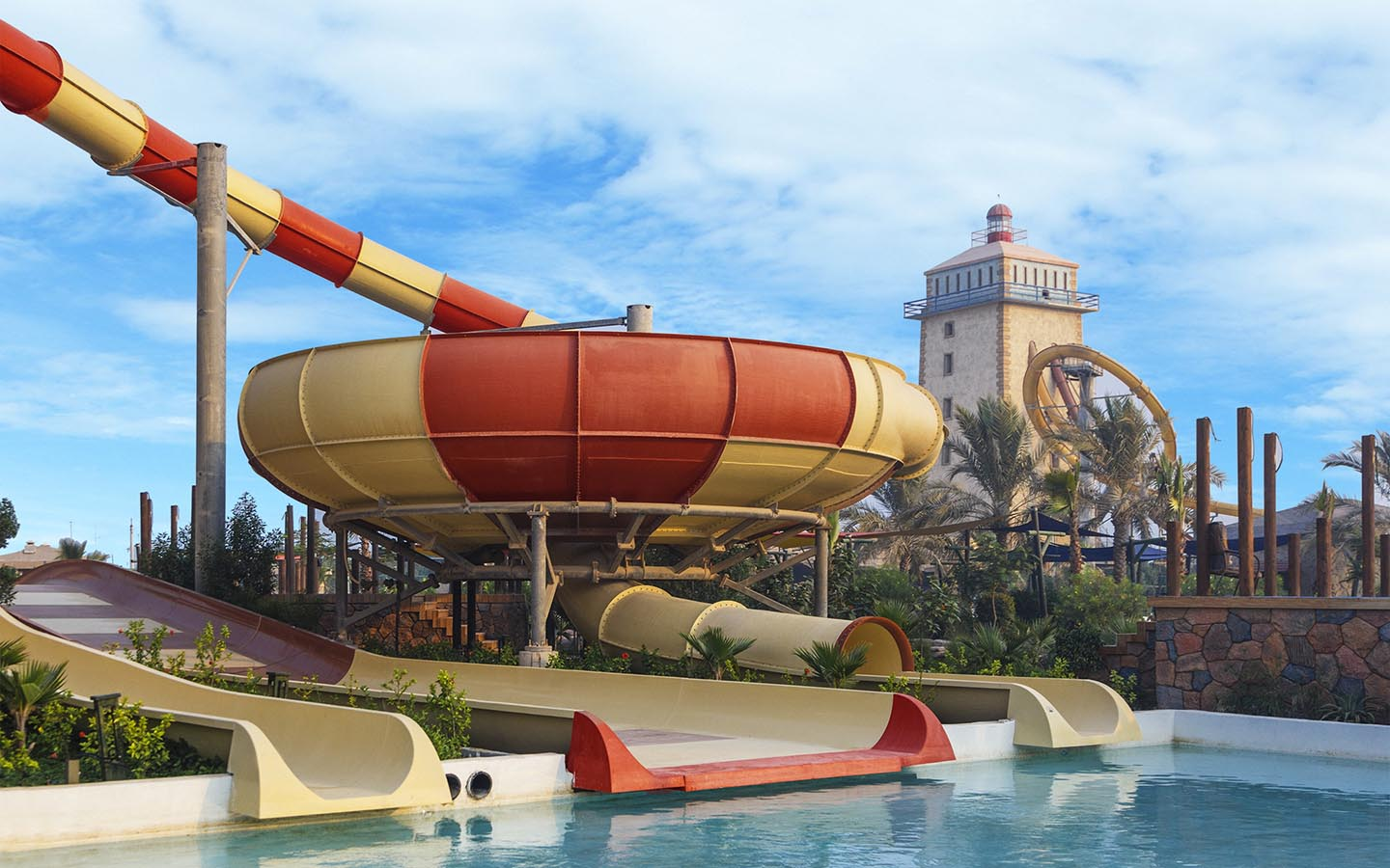 gerdab ride in ocean water park